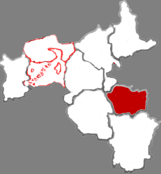 Location of Guangling county in Datong City, China